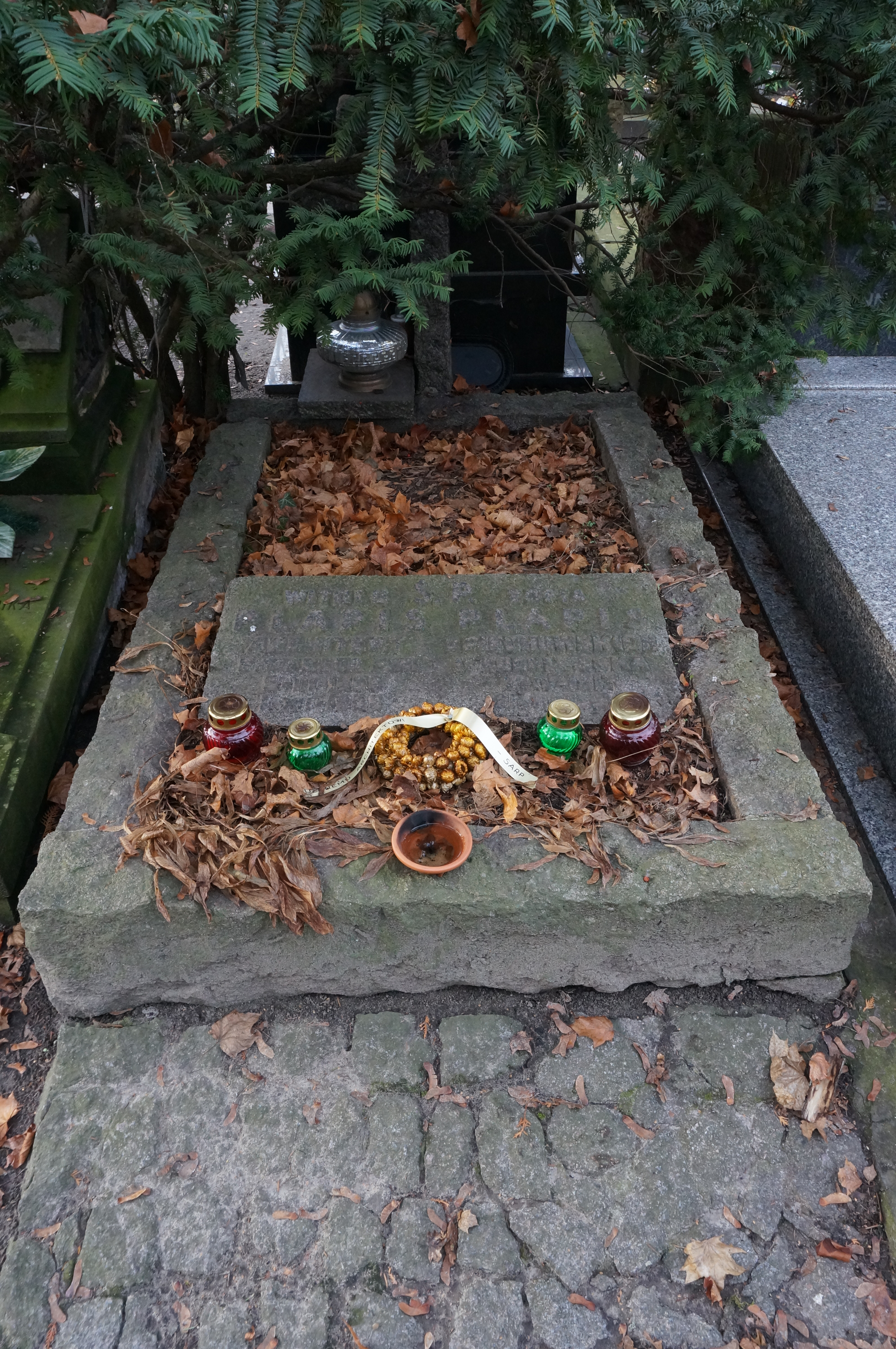 The grave of Witold Plapis at the Powązki Cemetery (section 203, row 5, grave 9)